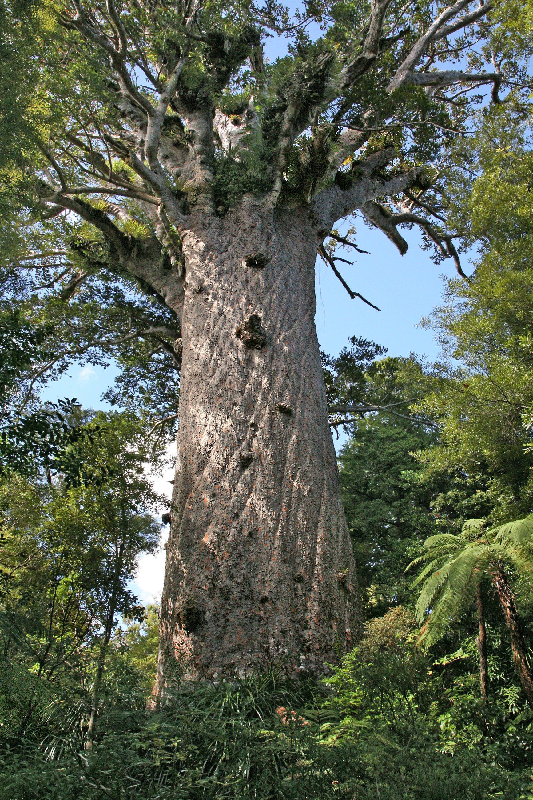 Kauri Tree "Tāne Mahuta" in the Waipoua Forest. The tree has a total height of over 50 meters with a trunk circumference of 14 meters.